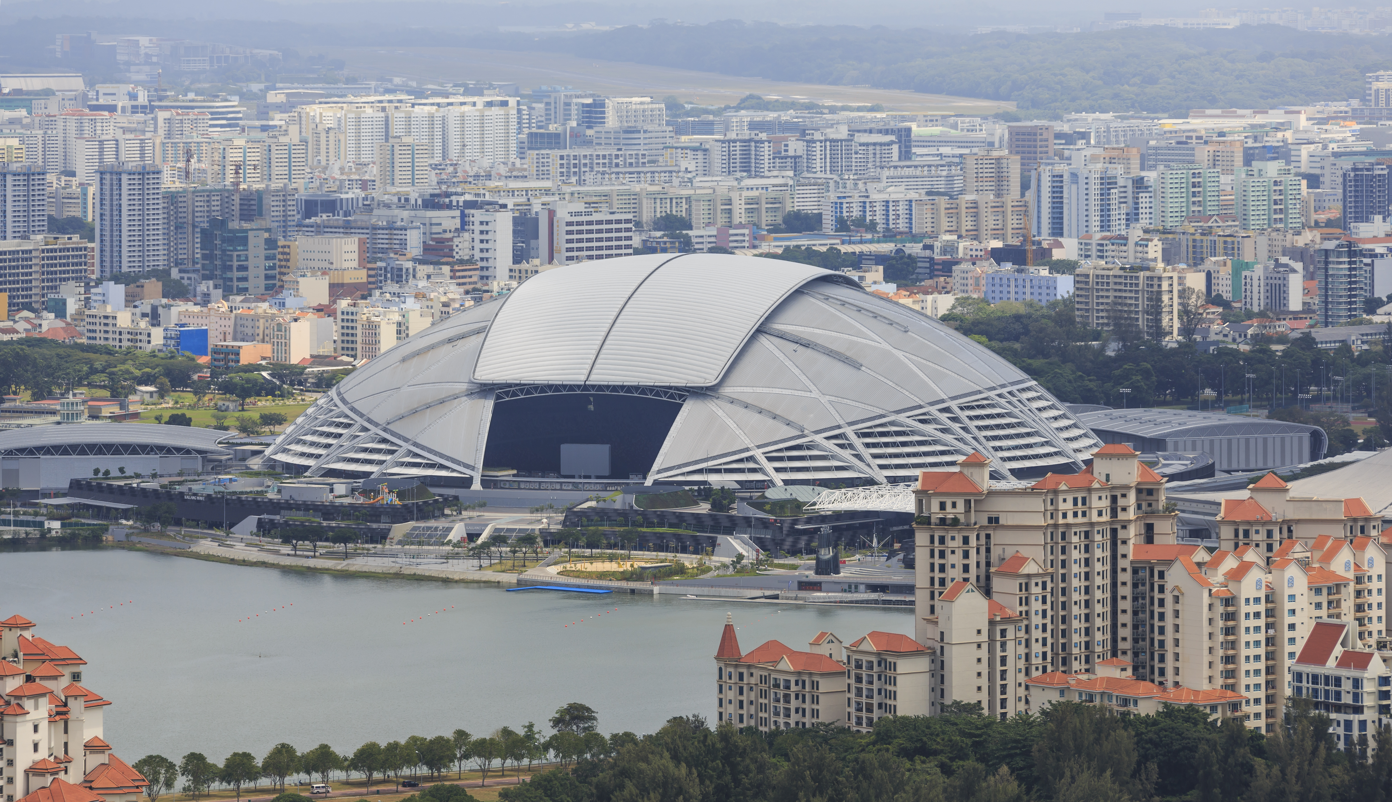 Singapore: Singapore Sports Hub with the National Stadium, seen from Marina Bay Sands top observation deck